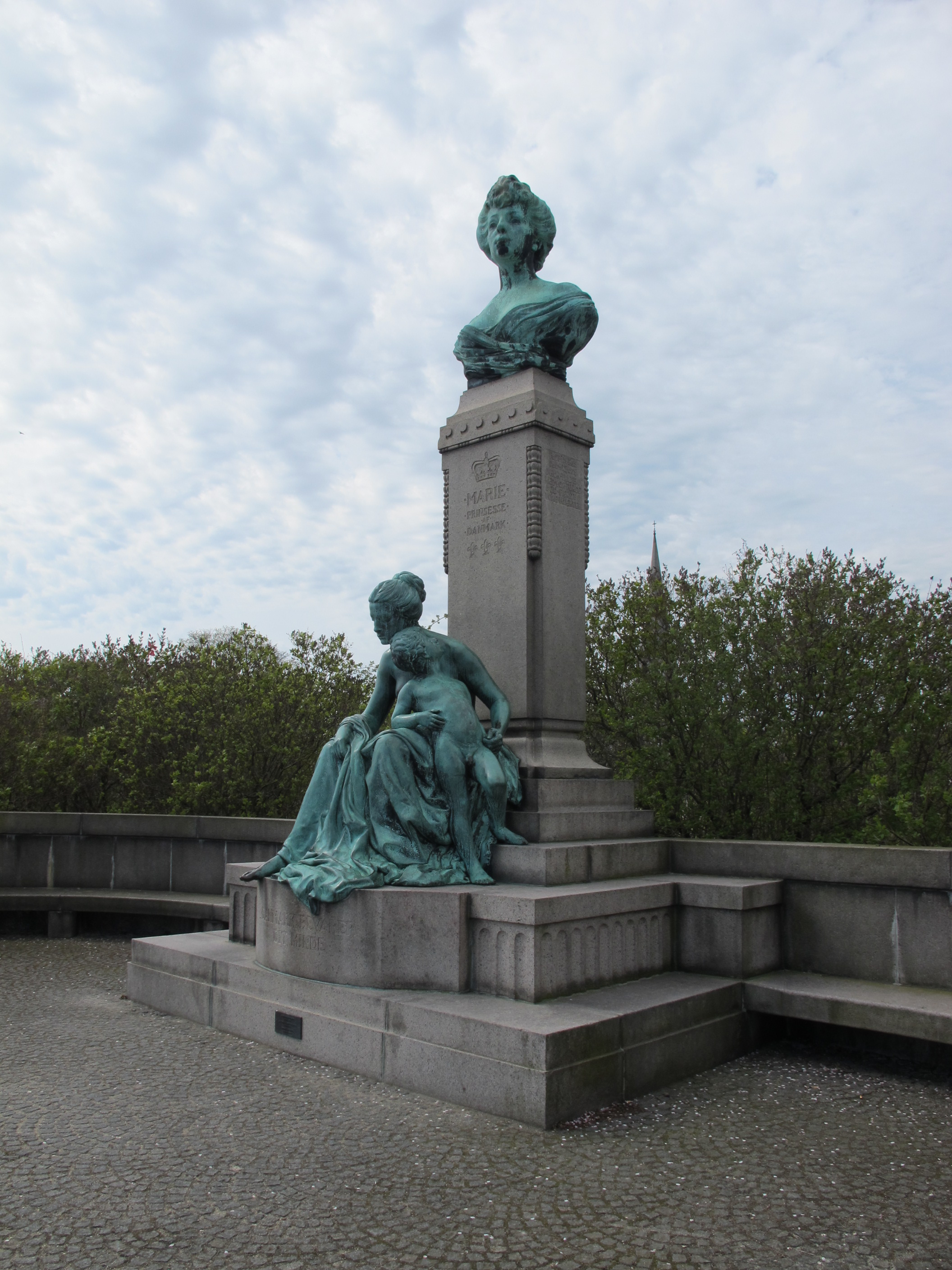 Monument commemorating Princess Marie of Orléans (1865–1909) at Langelinie in Copenhagen, Denmark